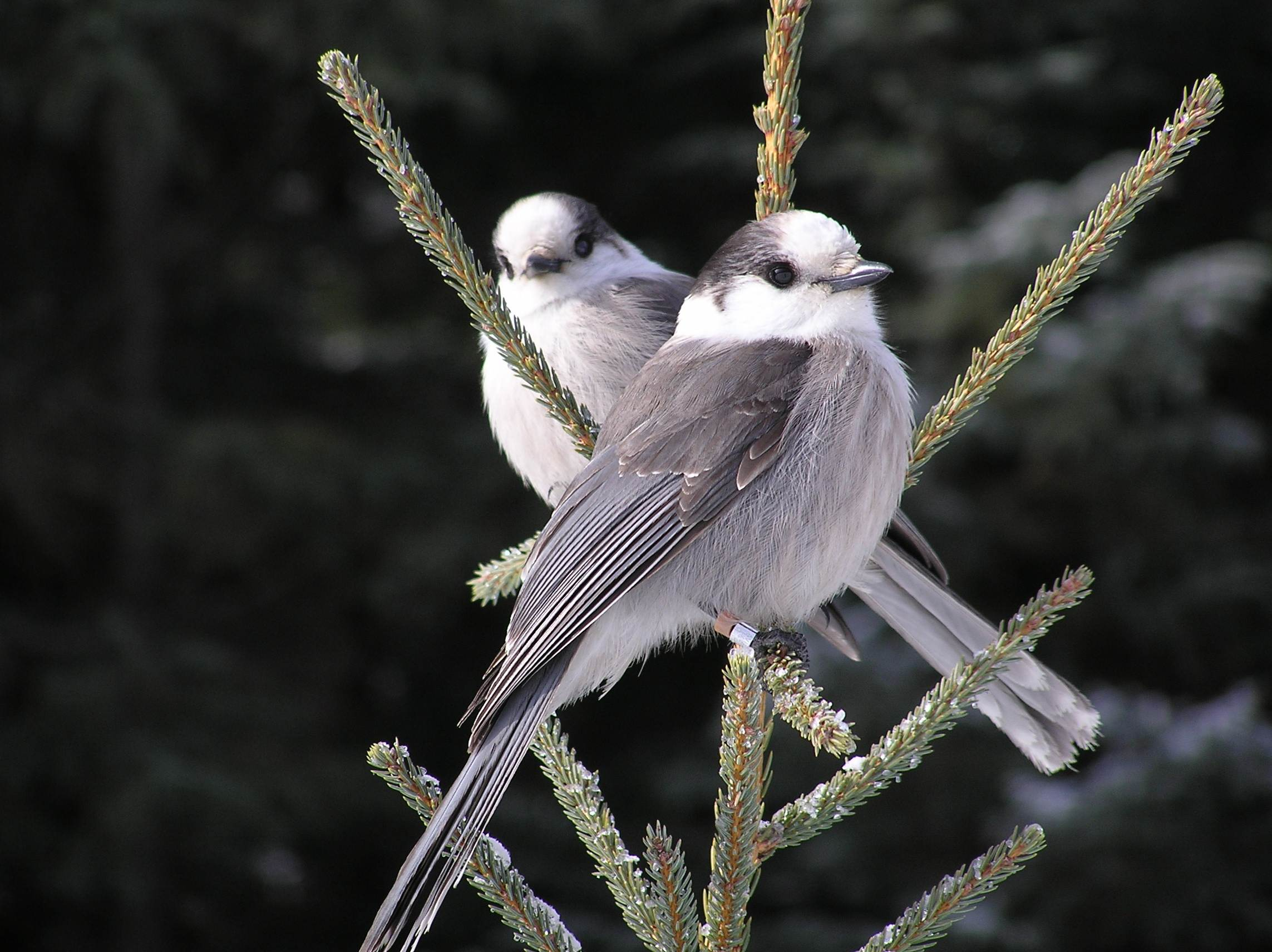 A pair of Gray Jay. Algonquin Park, Ontario, Canada.